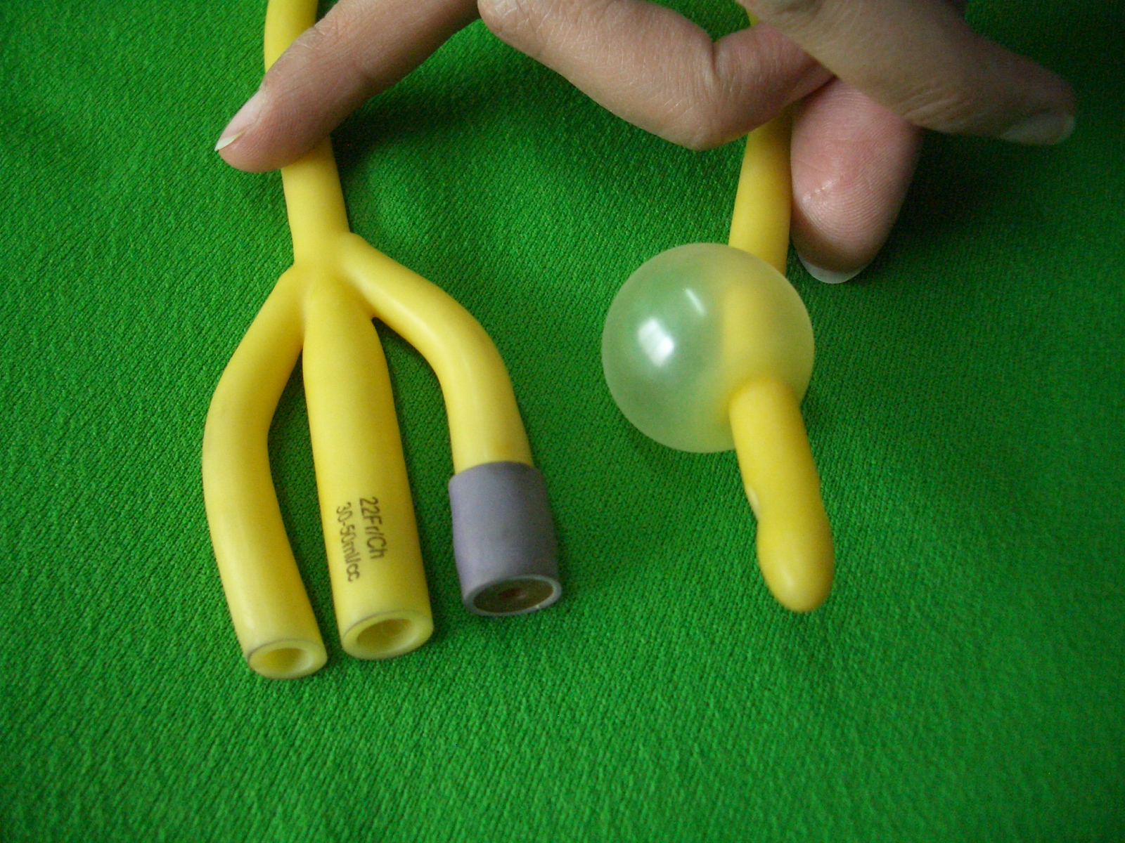 Type of urinary catheters.